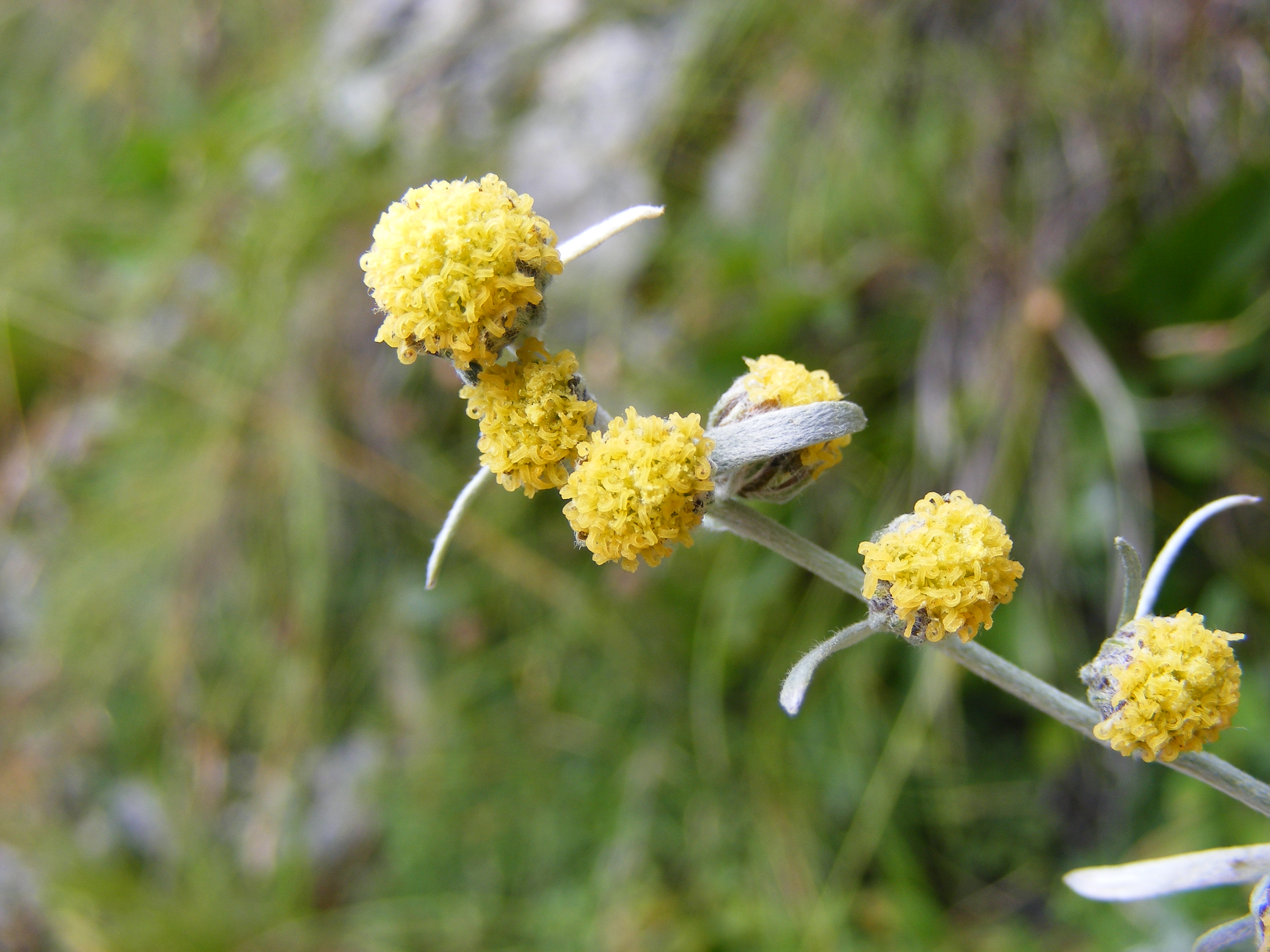 This photo shows Artemisia nitida Clsoe up of flowers